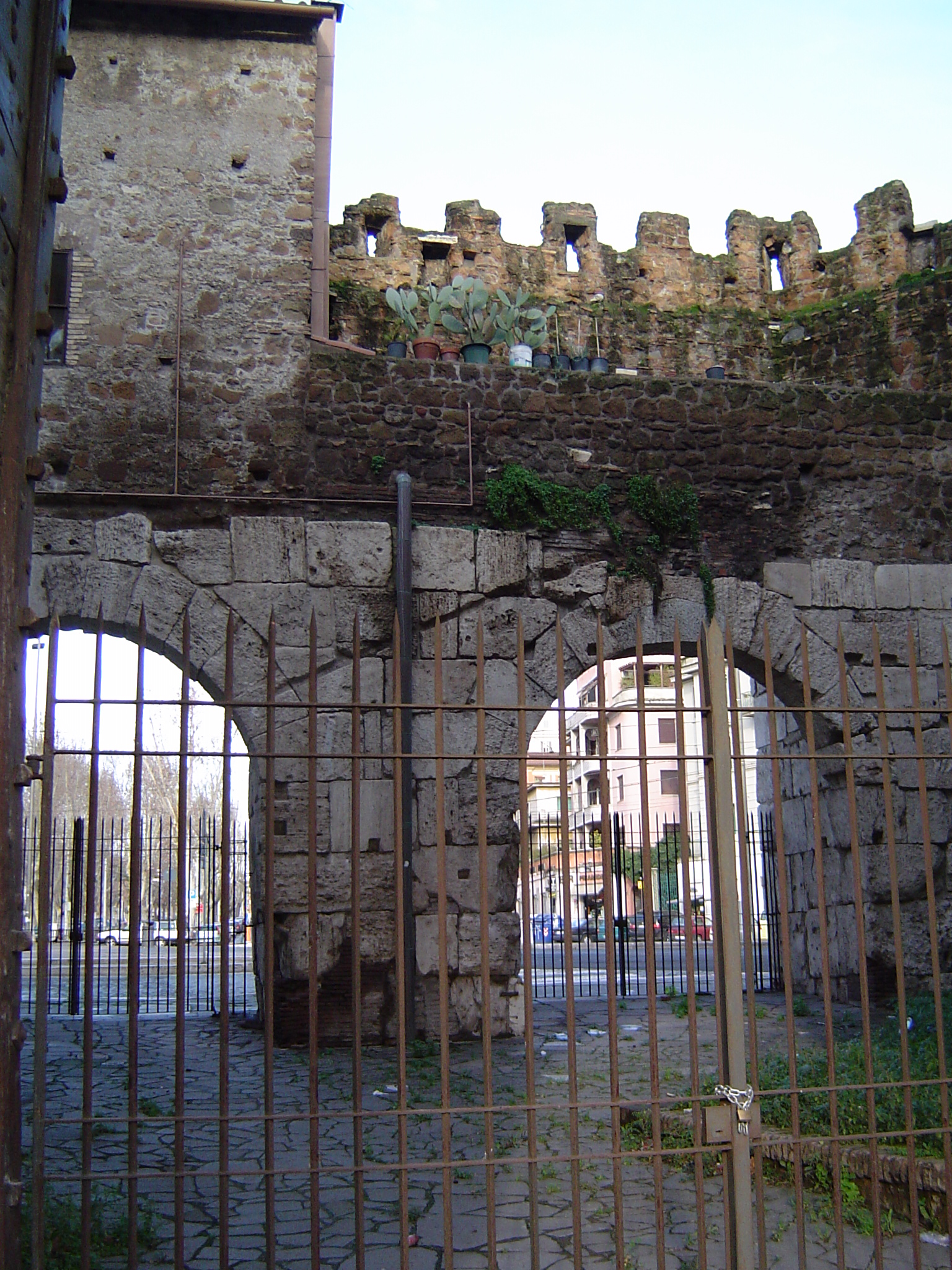 Porta San Paolo, Rome, Italy, Made by Joris van Rooden, the Netherlands on 03-01-2006